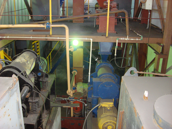 Ball mills for producing Coal Water Slurry Fuel